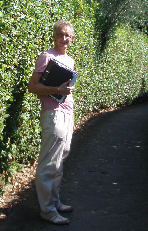 Johan Schot at the Villa Schifanoia